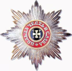 Historical star of Order of St. Vladimir